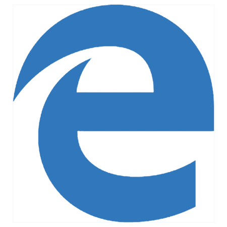 Logo for the Edge browser.